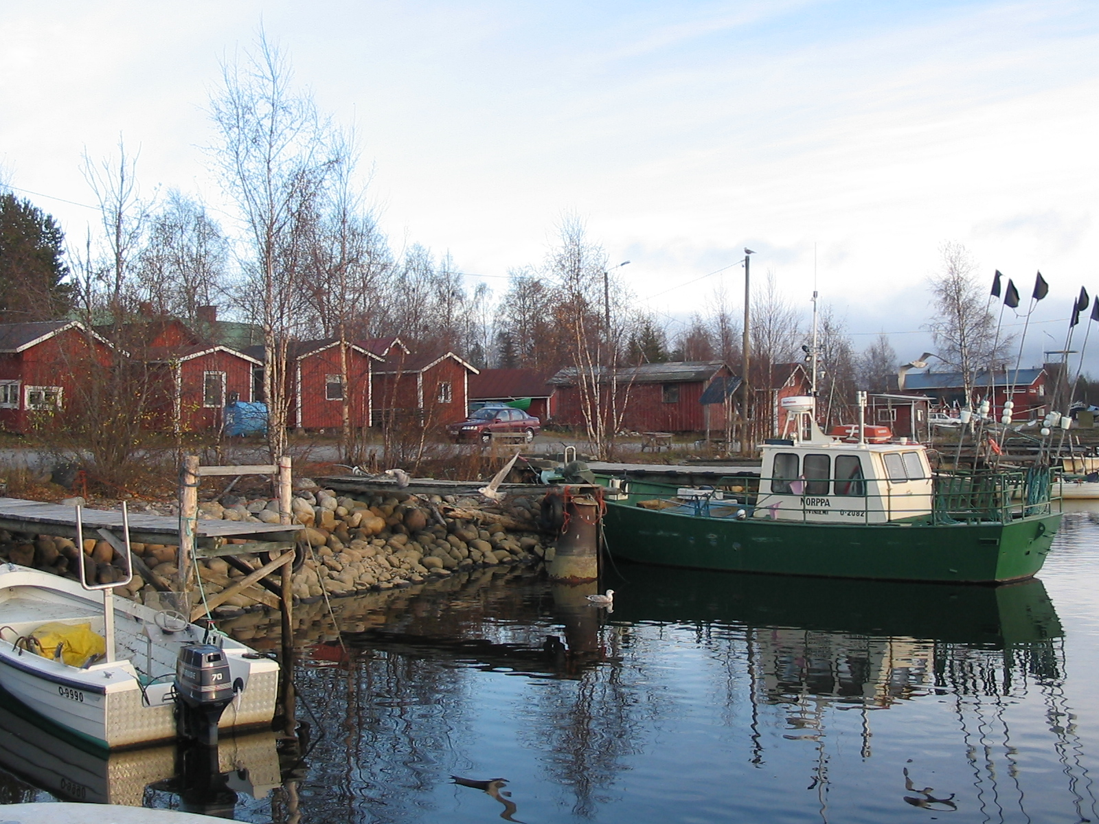 The Fishing Village of Kiviniemi, Haukipudas, Finland.